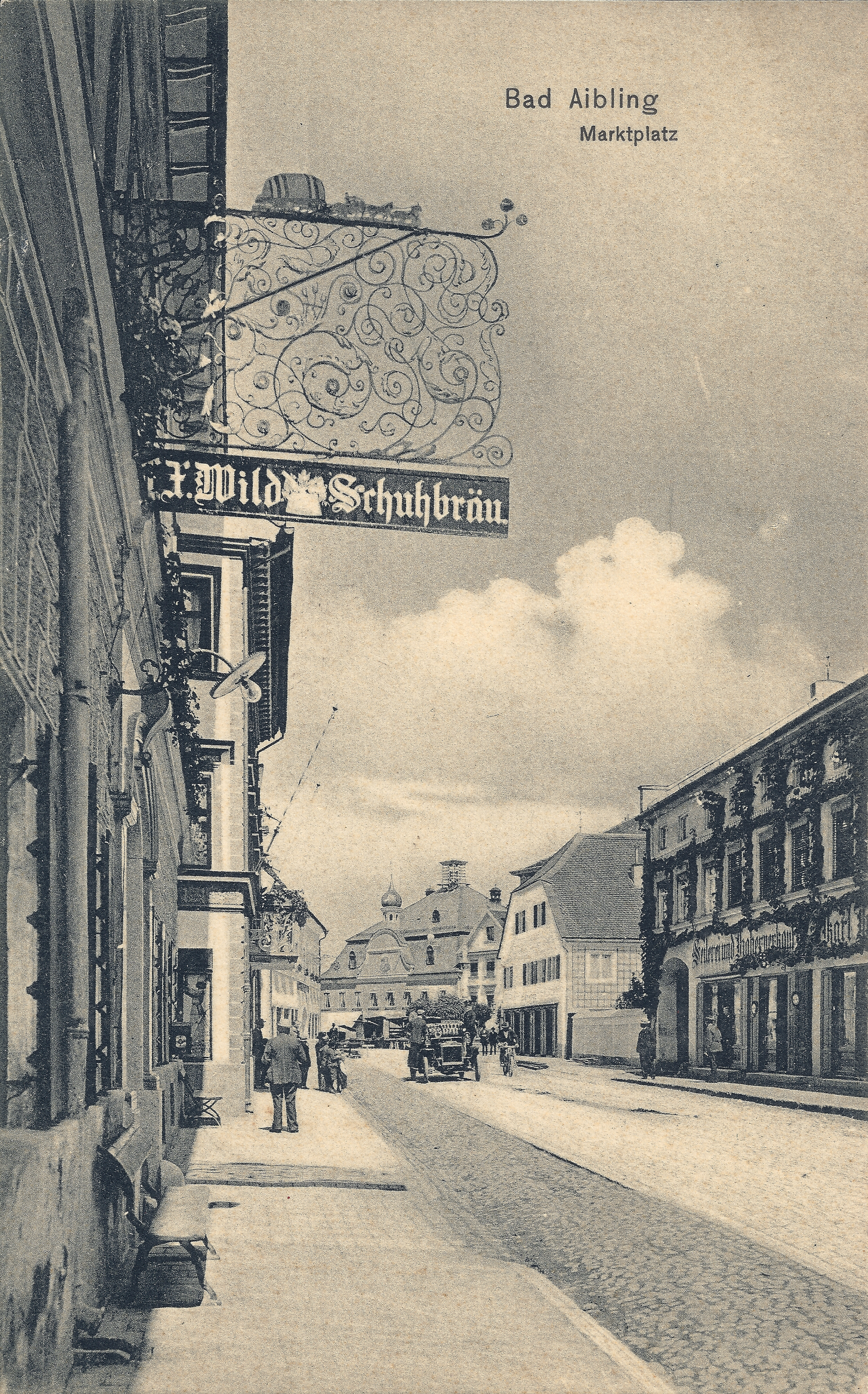 westwards view to market place / town square / Marienplatz